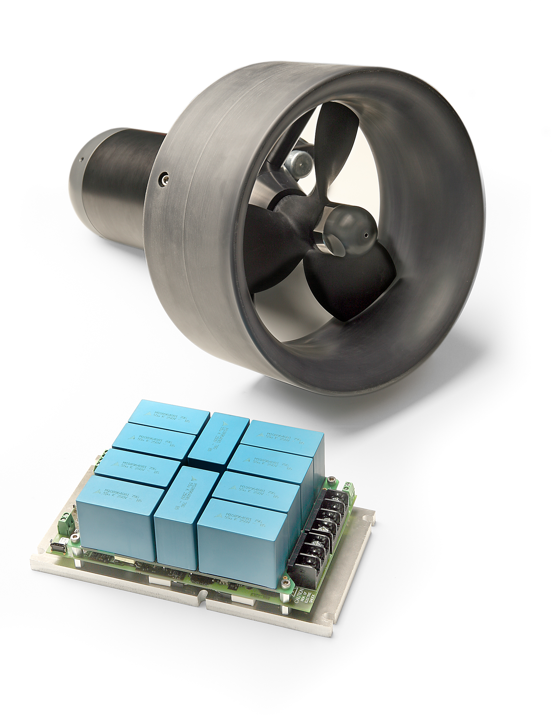 i127-01 is a brushless motor servo drive ready for operation at 1600 m deep, developed to control propulsion system on manned submersibles, AUVs and ROVs.